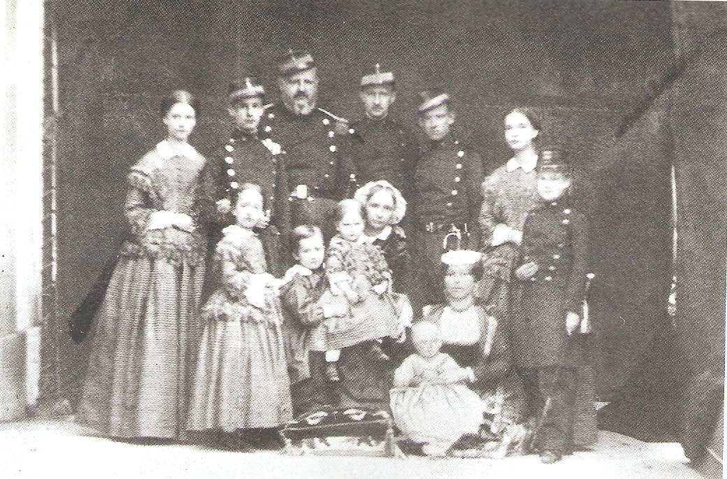 Ferdinand II, King of the Two Sicilies with his family